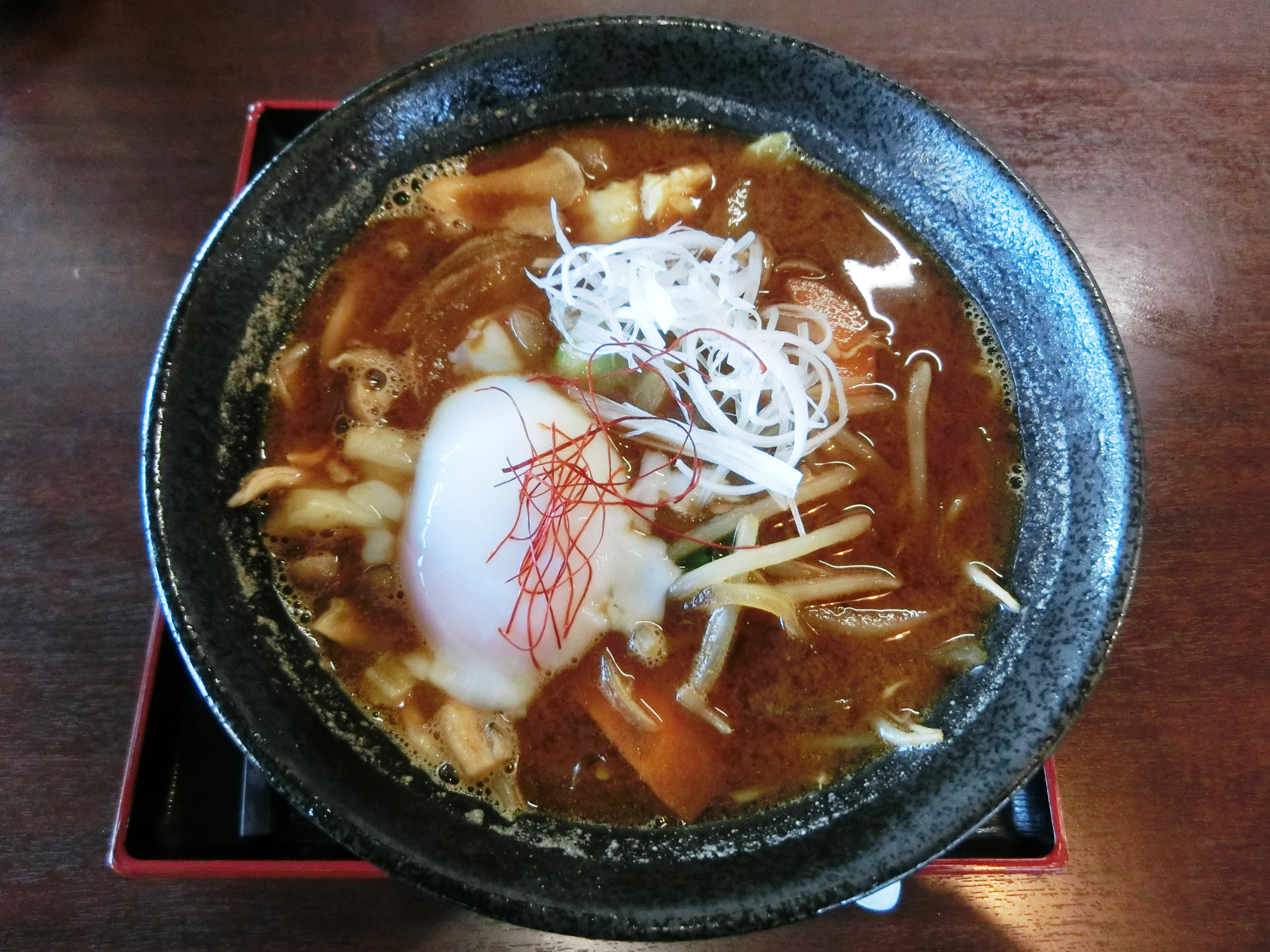 Kameyama Ramen